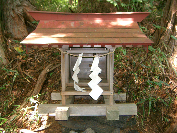 Sean Wilson, 2005 , Shinto Hemp Streamers in small Shrine, Mt Fuji, Japan.